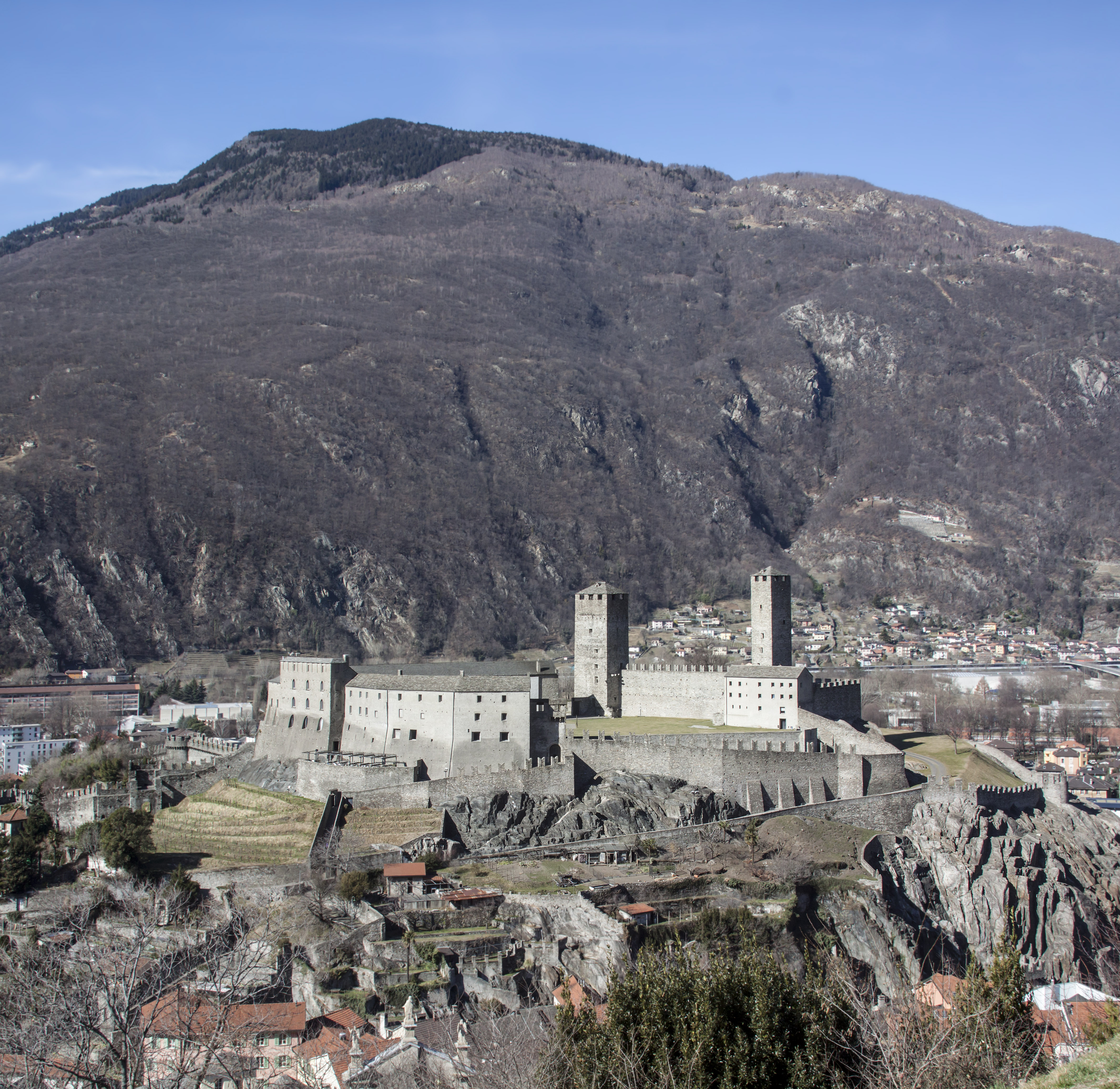 Castelgrande